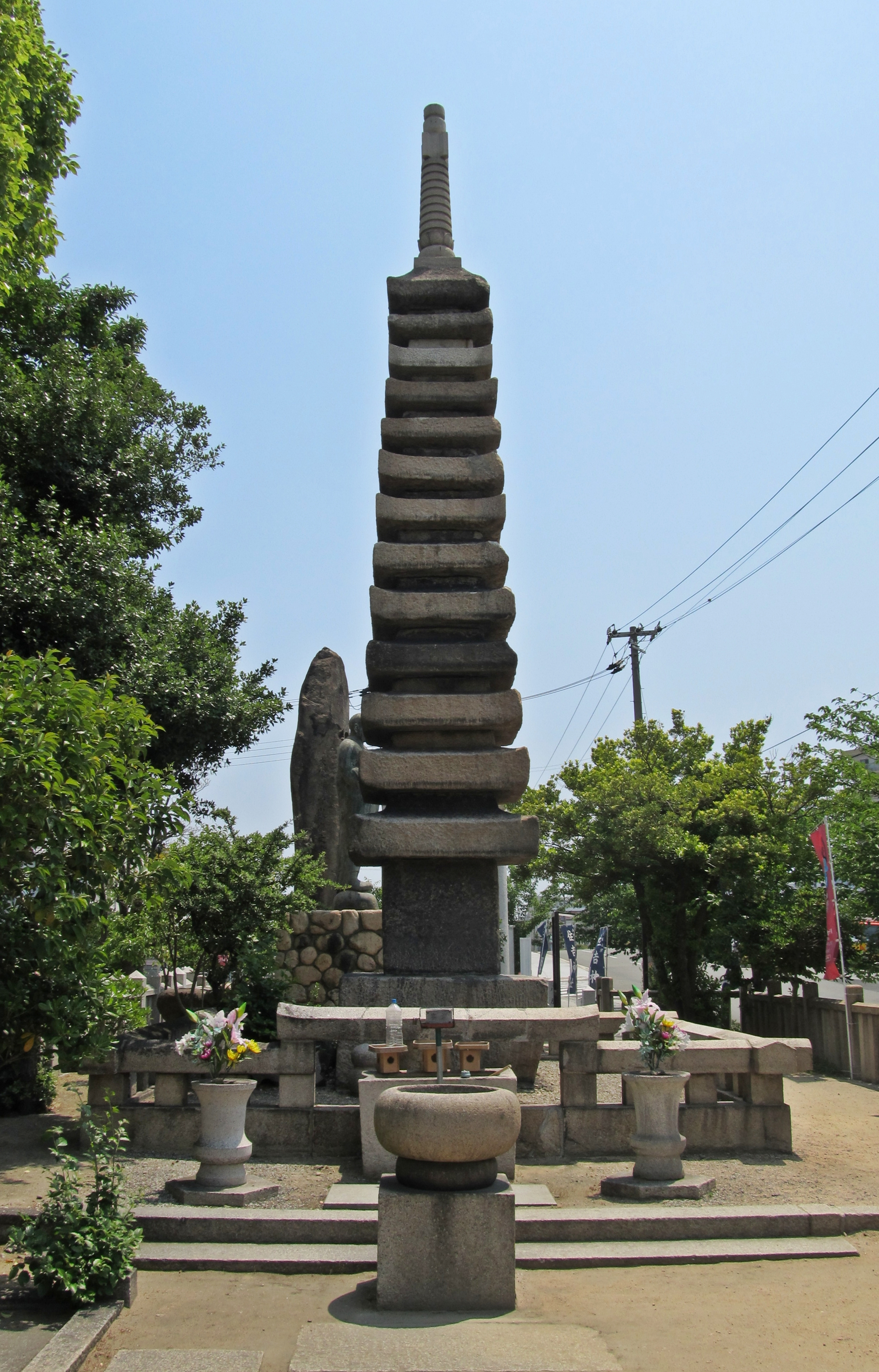 Kiyomori Zuka(Hyōgo-ku,Kobe,Hyogo,Japan.Built in 13th century.)